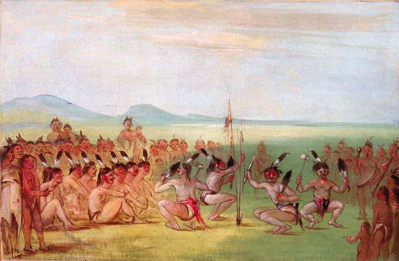 â€œThe Eagle Dance, a very pretty scene . . . [was] got up by their young men, in honour of that bird, for which they seem to have a religious regard. This picturesque dance was given by twelve or sixteen men, whose bodies were chiefly naked and painted white, with white clay, and each one holding in his hand the tail of the eagle, while his head was also decorated with an eagle's quill. Spears were stuck in the ground, around which the dance was performed by four men at a time, who had simultaneously, at the beat of the drum, jumped up from the ground where they had all sat in rows of four, one row immediately behind the other, and ready to take the place of the first four when they left the ground fatigued . . . In this dance, the steps or rather jumps, were different from anything I had ever witnessed before, as the dancers were squat down, with their bodies almost to the ground, in a severe and most difficult posture, as will have been seen in the drawing.â€ This painting was inspired by sketches that George Catlin made near Fort Gibson (present-day Oklahoma) in 1834. (Catlin, Letters and Notes, vol. 2, no. 49, 1841; reprint 1973)